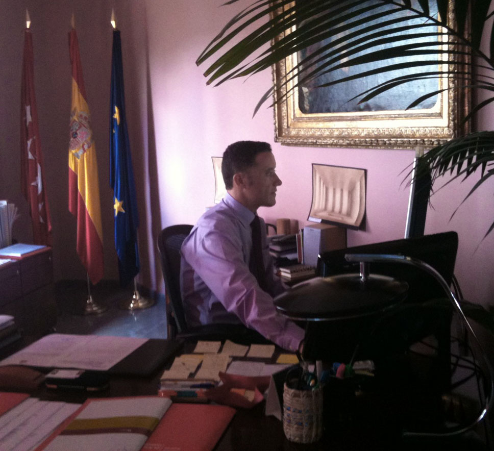 Ángel Martínez Roger en la RESAD